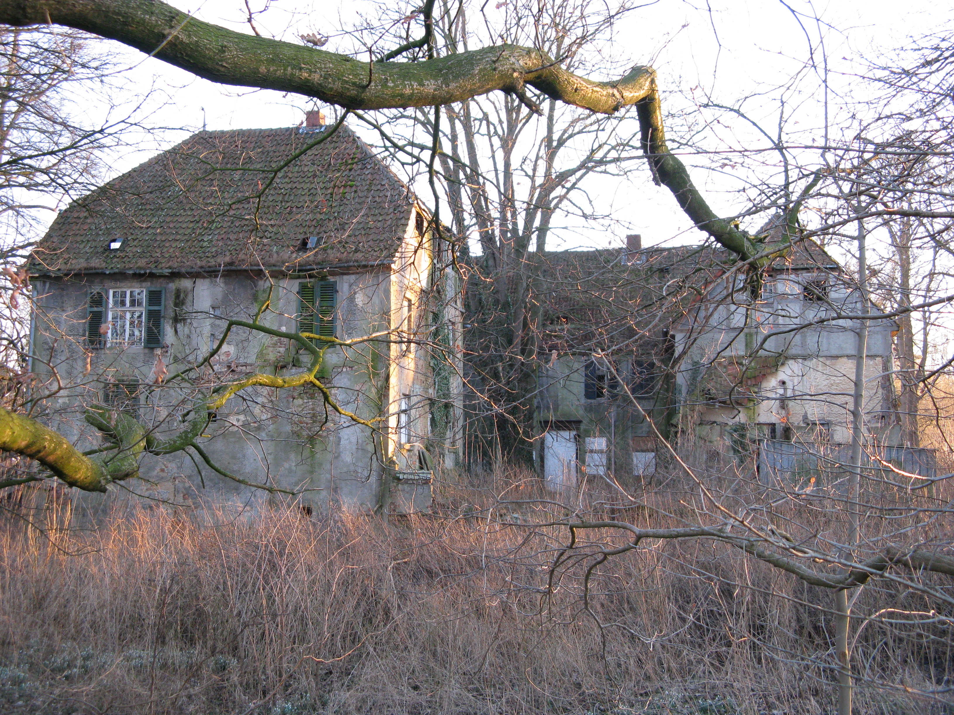 This image shows a heritage building in Germany, located in the North Rhine-Westphalian city Espelkamp (no. 6).